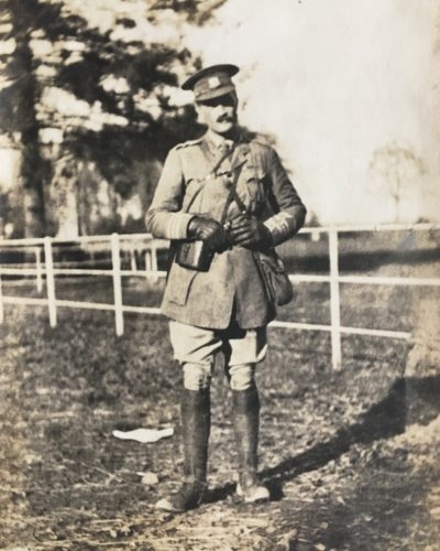 Lieutenant-Colonel Bulkeley-Johnson, commanding officer, 2nd Dragoons (The Royal Scots Greys) at Kemmel in Belgium, October 1914.